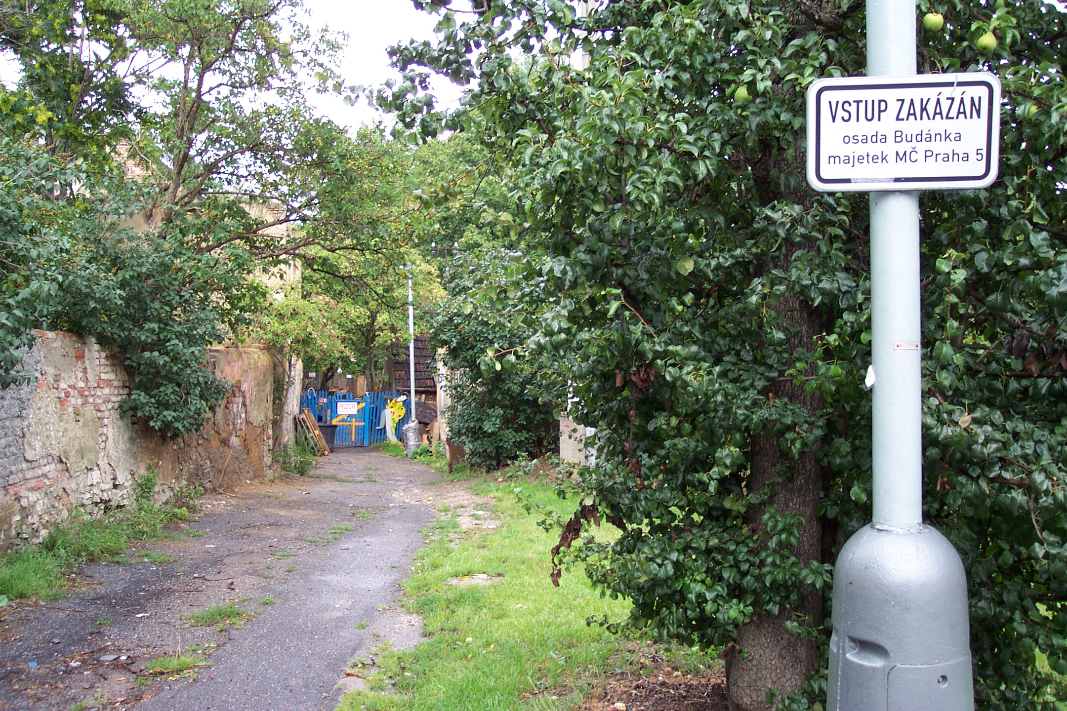 Ruins of Buďánka colony in Prague-Smíchov, CZ